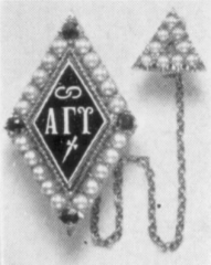 Alpha Gamma Upsilon Pin with Delta dangle